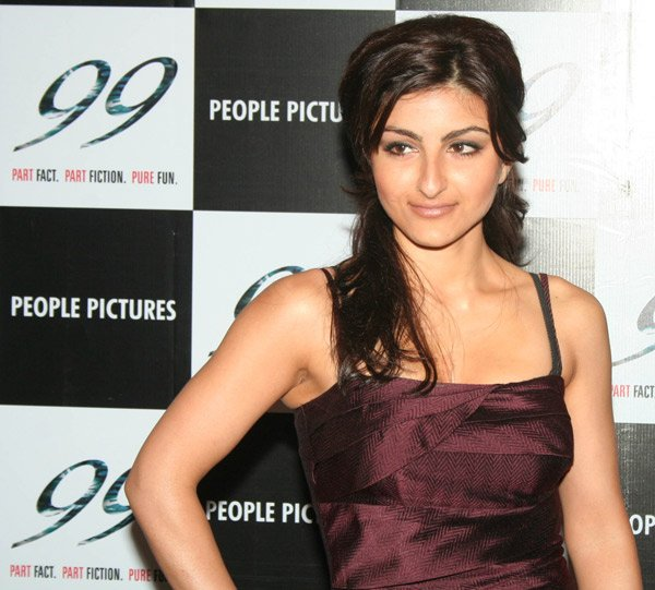 Launch party of the film 99